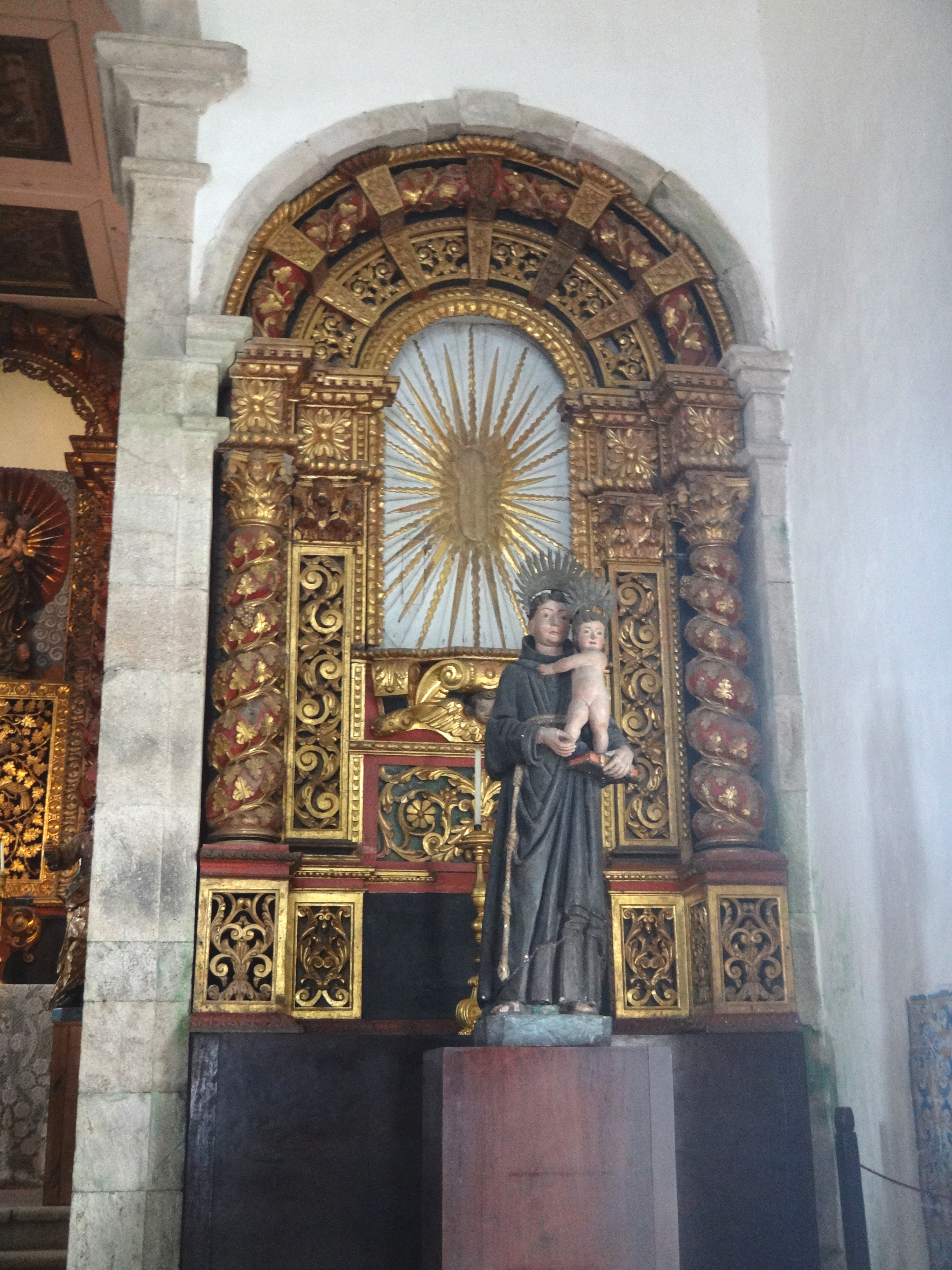 Lateral altar and Saint Anthony statue (17th-century) within the church of the Anjos Convent in Cabo Frio, Brazil